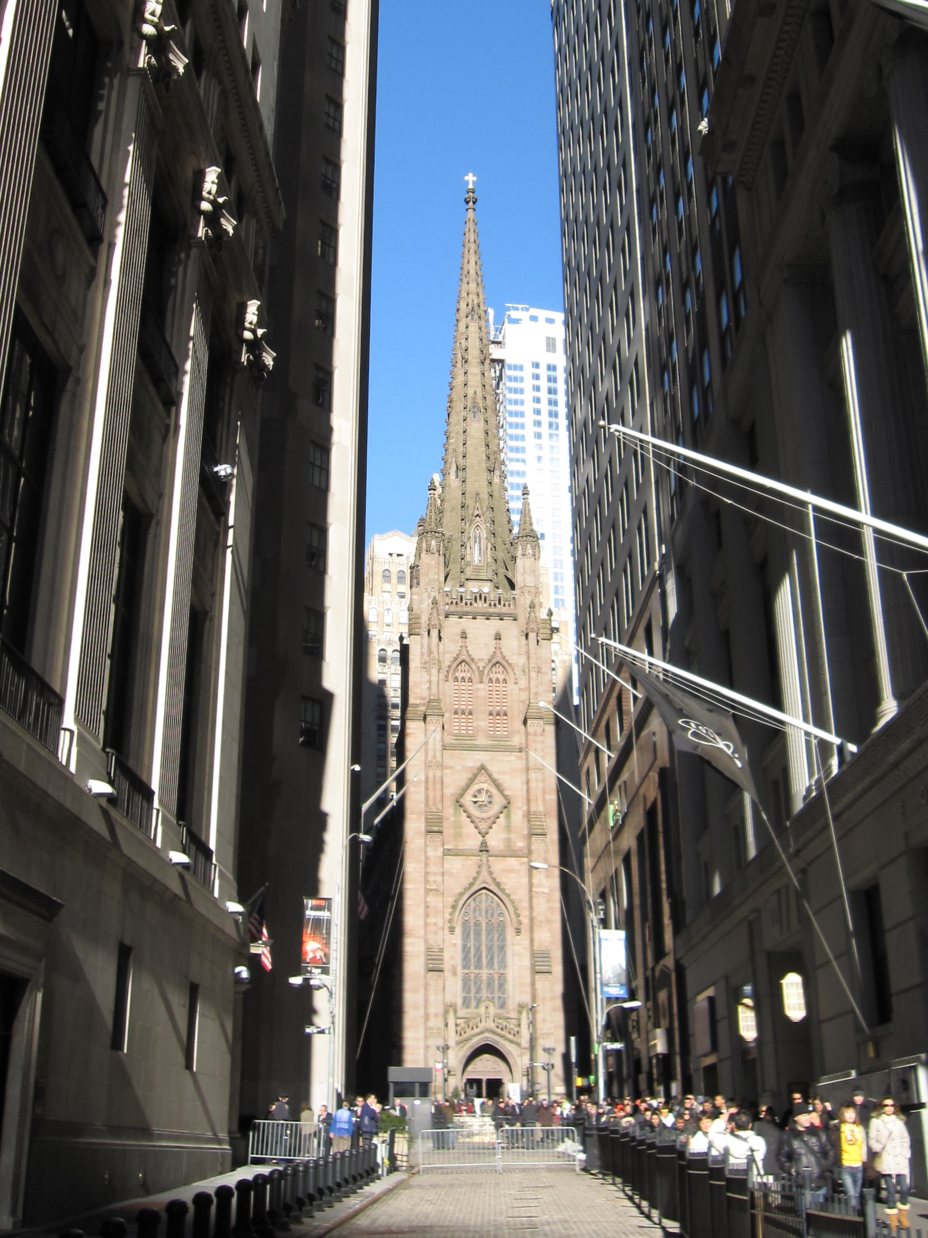 Trinity Church in New York City.